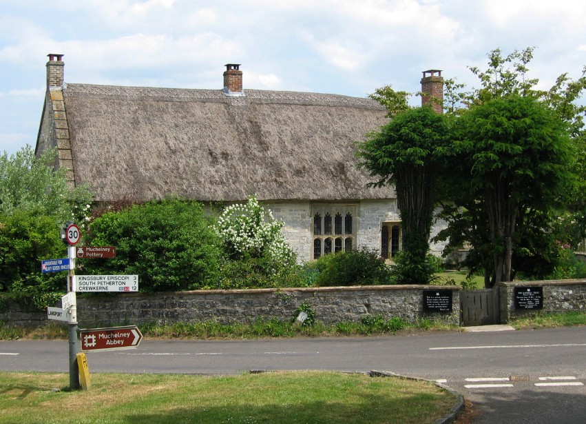 The thatch-roofed Priest's House, Muchelney